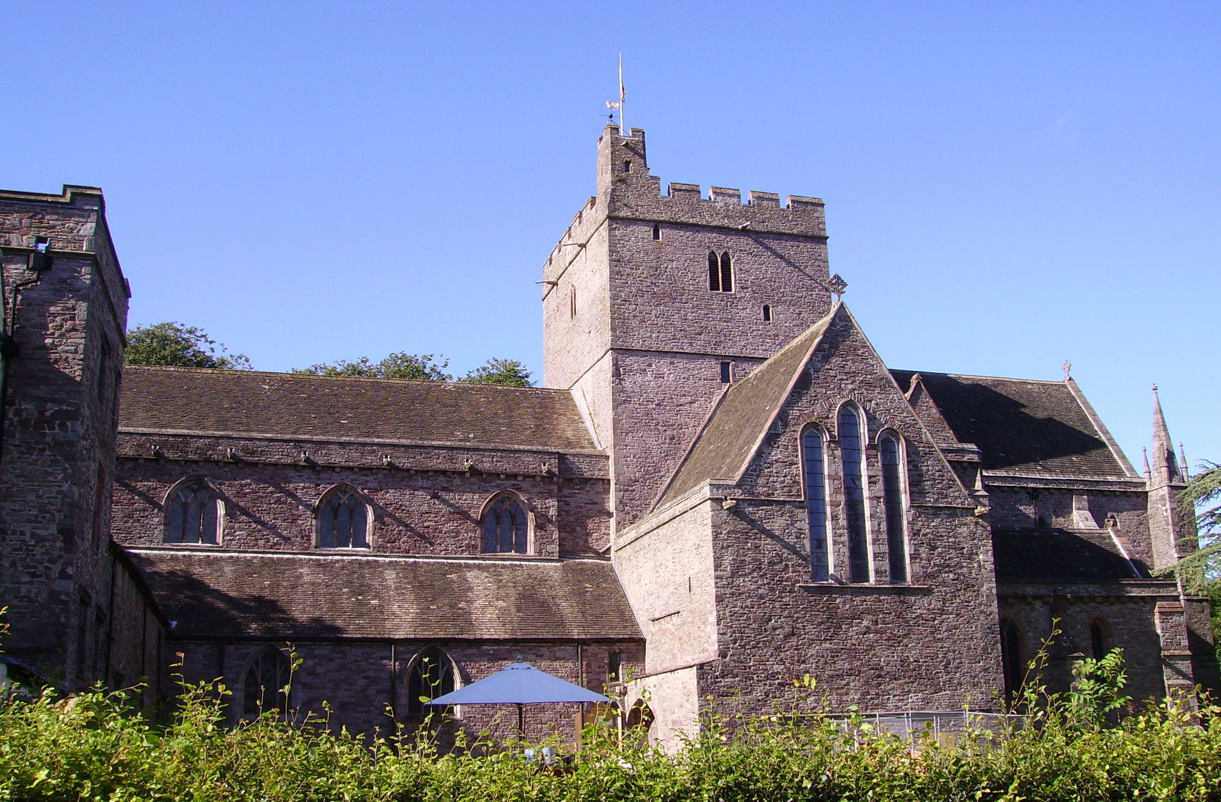 view of Brecon in Wales